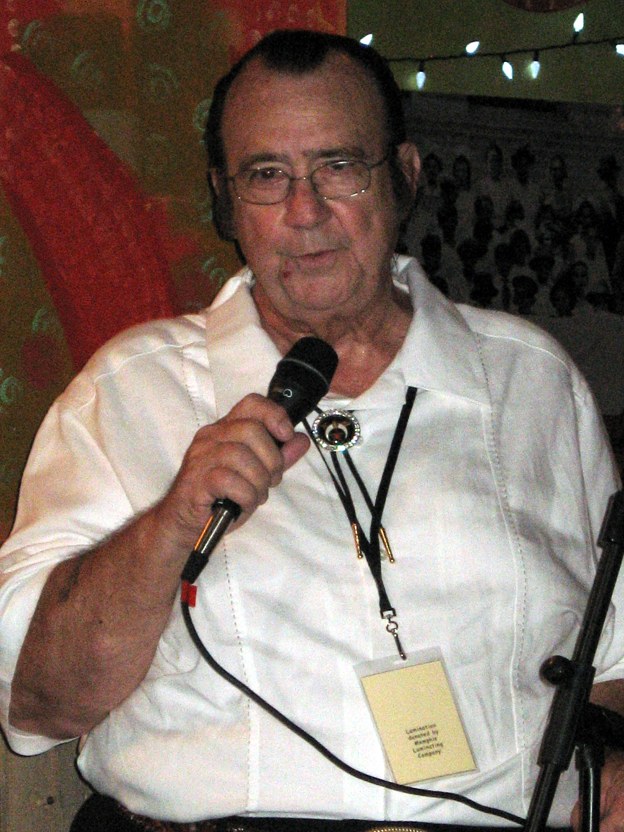 Rockabilly musician Eddie Bond at the Memphis Music Festival in 2008